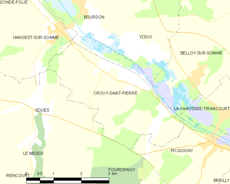 Map of French municipality Crouy-Saint-Pierre